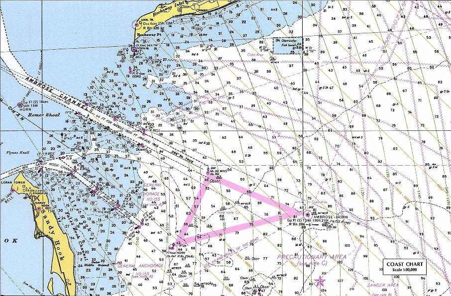 Nautical chart including LORAN TD lines for ocean approaches to New York Harbor. The chart shows TD lines, apparently for LORAN-A, which would make it the Nantucket-Chatam-Montuck-Sandy Hook-Fenwick-Bodie Is-Cape Hatteras chain. Note that the printed TD lines do not extend into inland waterway areas, as LORAN propagates poorly over land. The green 1000 lines curve heavily in this area. Note the "LORAN TR" mark at the tip of Sandy Hook near the focus of the curves. This would be Station "J" (3H5). The ochre 4000 lines (3H4) would correspond to the TD between the master and Station "H" at Cape Hatteras. The master station of this chain was at Sankaty Head on Nantucket, Massachussets. [1] The sharp angle between these sets of TD rings, especially to the east and north, would make it a poor pair for precise navigation. This is a detail of the original at: Source: Perry-Castañeda Map Collection, University of Texas at Austin URL: [2]